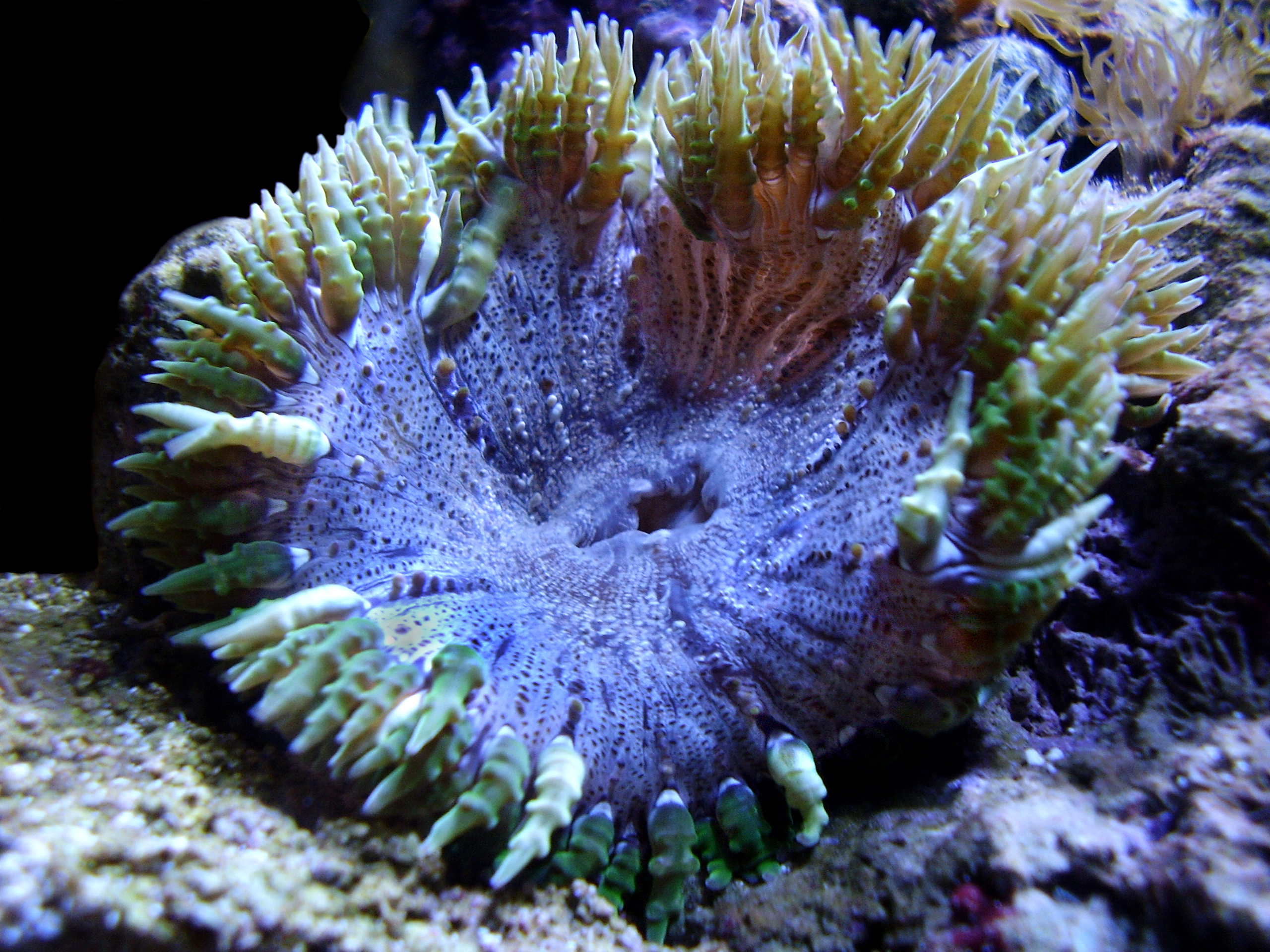 A Rock or Flower Anemone (Phymanthus crucifer) under actinic in aquarium